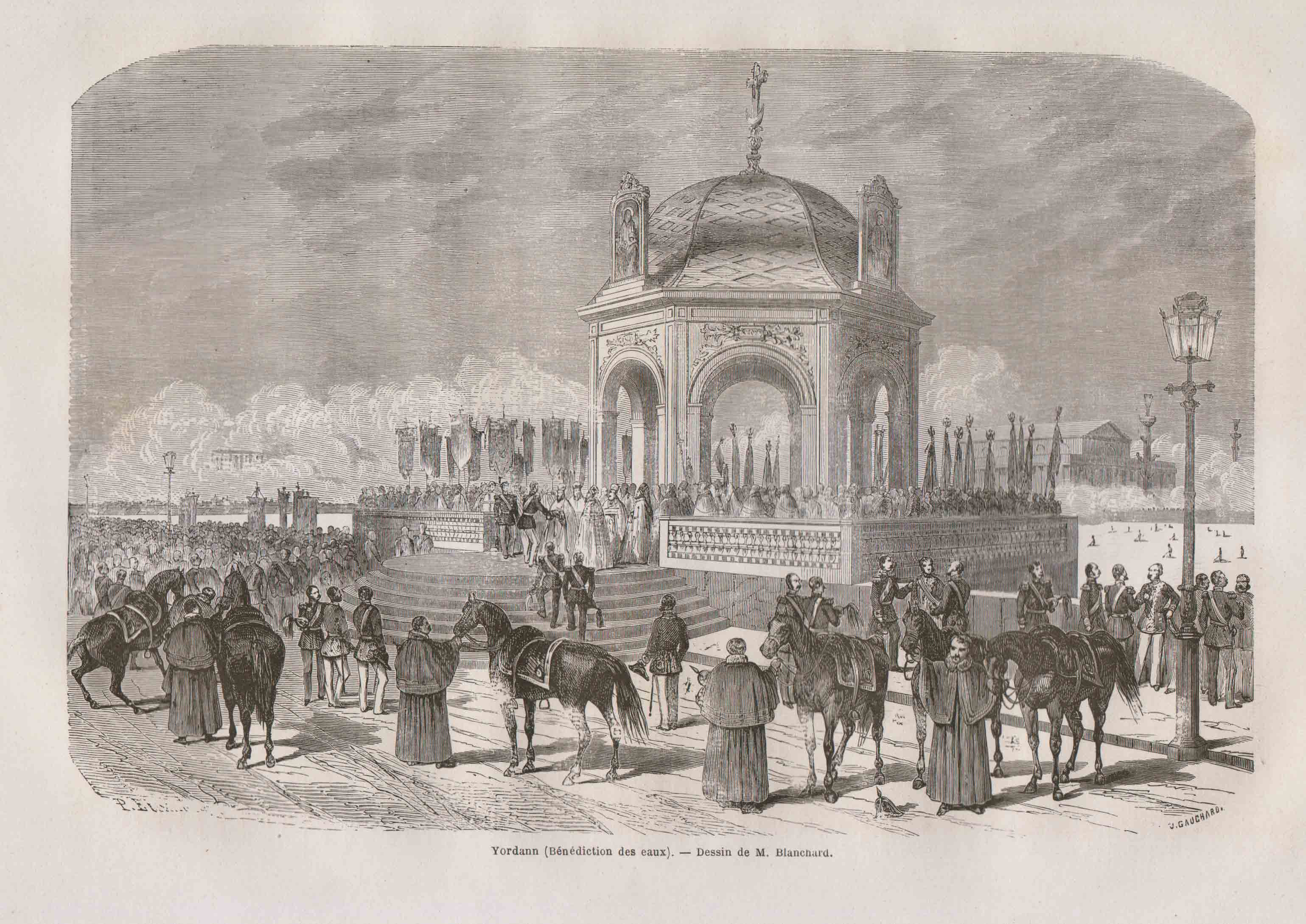 benediction of waters in S.-petersbourg in 1857